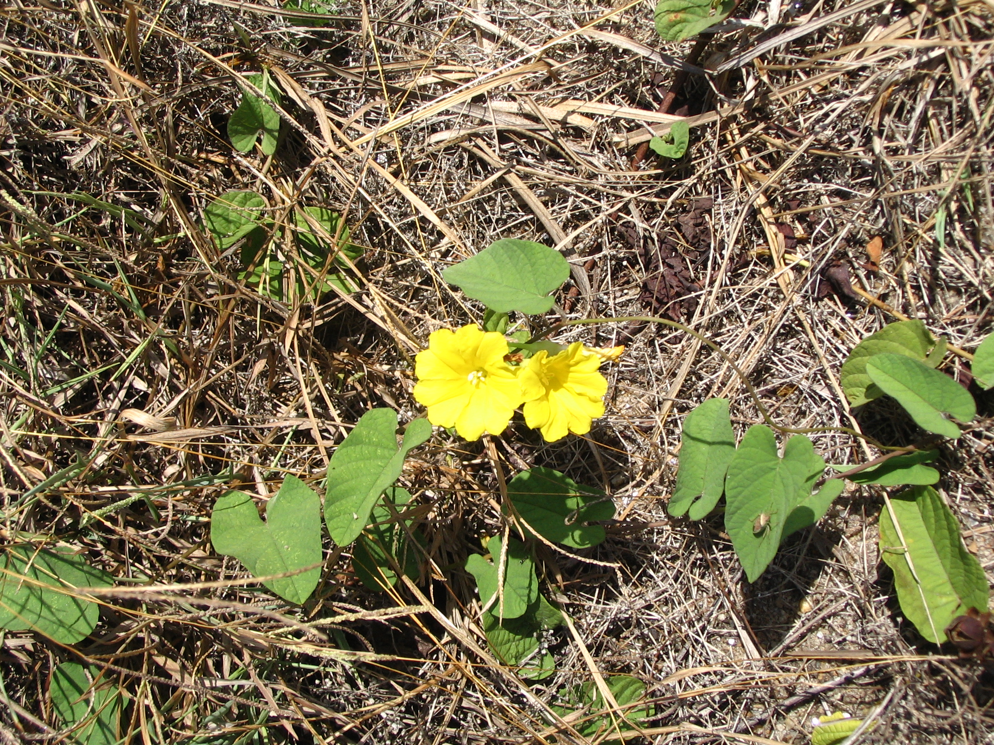 A Merremia umbellata by a lake in Kourou, French Guiana.